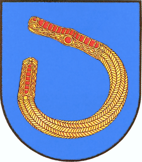 Coat of Arms of Isenbüttel